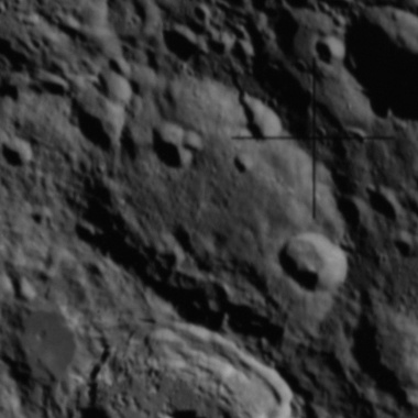 Oblique view of Ibn Firnas, facing northeast, on the far side of the moon.